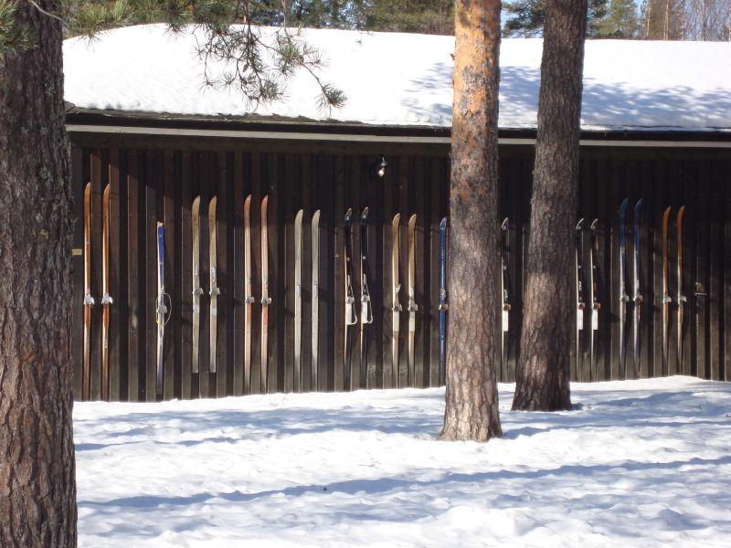 Umeå sculpture park/Sweden with Social Meeting (1997) by Raffael Rheinsberg.